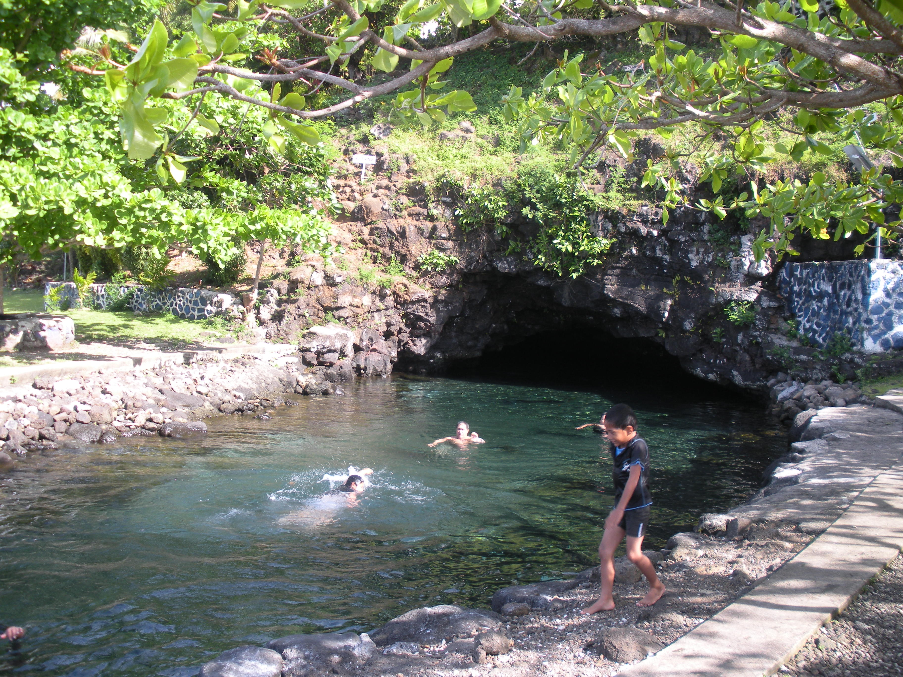 Piula cave pool by the Piula Monastery, north coast Upolu island, Samoa, 2009. The pool flows out to the sea.